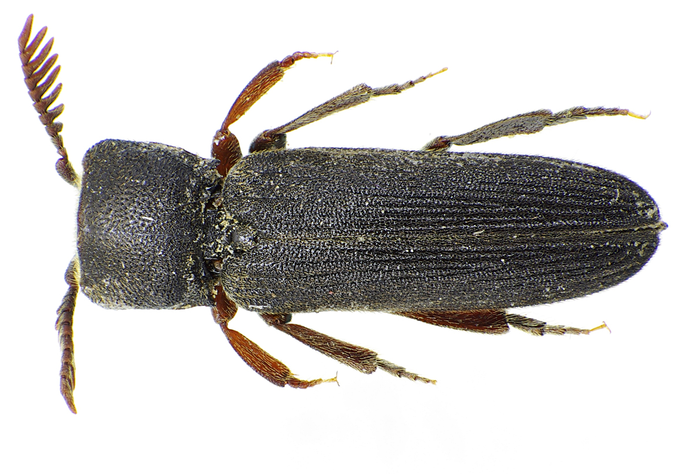 Melasis buprestoides from Hungary near Bélavár on pile of dead Alnus at 2012-04-27